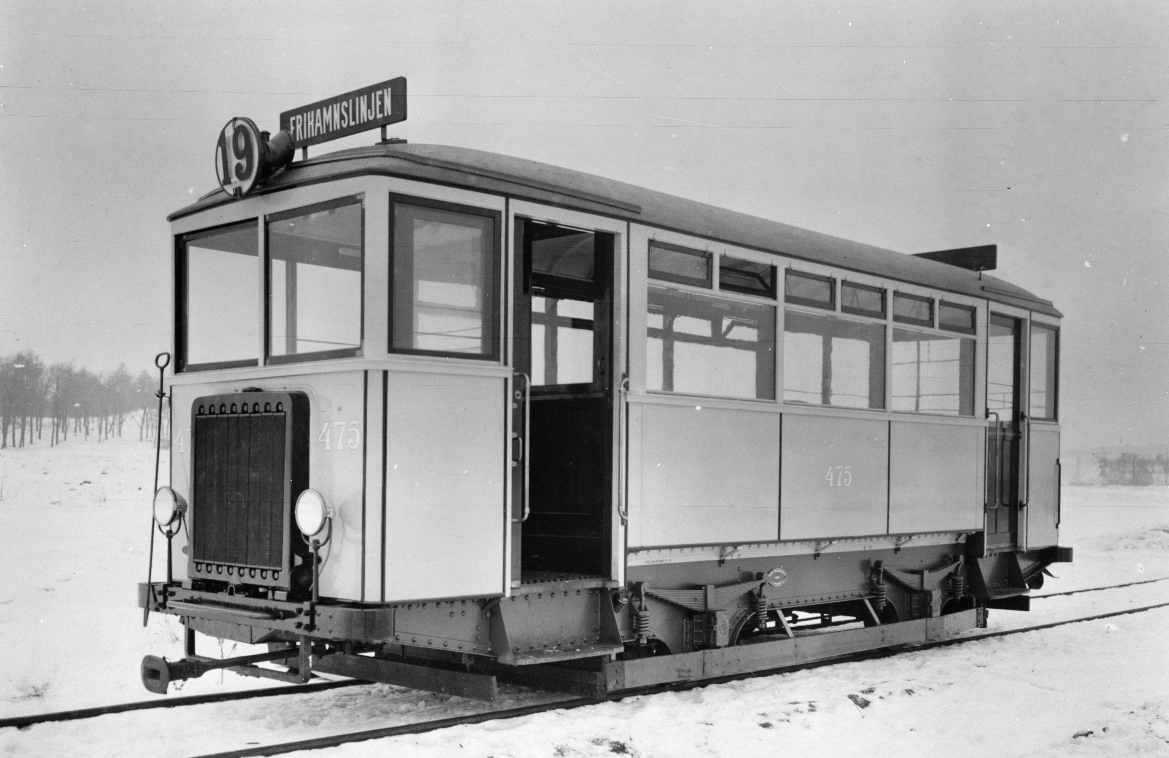 Combustion engine powered tram. In service 1924-1929 at the tram line between Karlaplan and Frihamnen in Stockholm, Sweden.